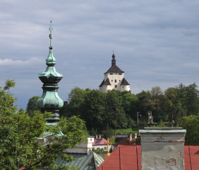 Banská Štiavnica, Nový zámok (view from Starý zámok) This medium shows the protected monument with the number 602-2481/0 in the Slovak Republic.